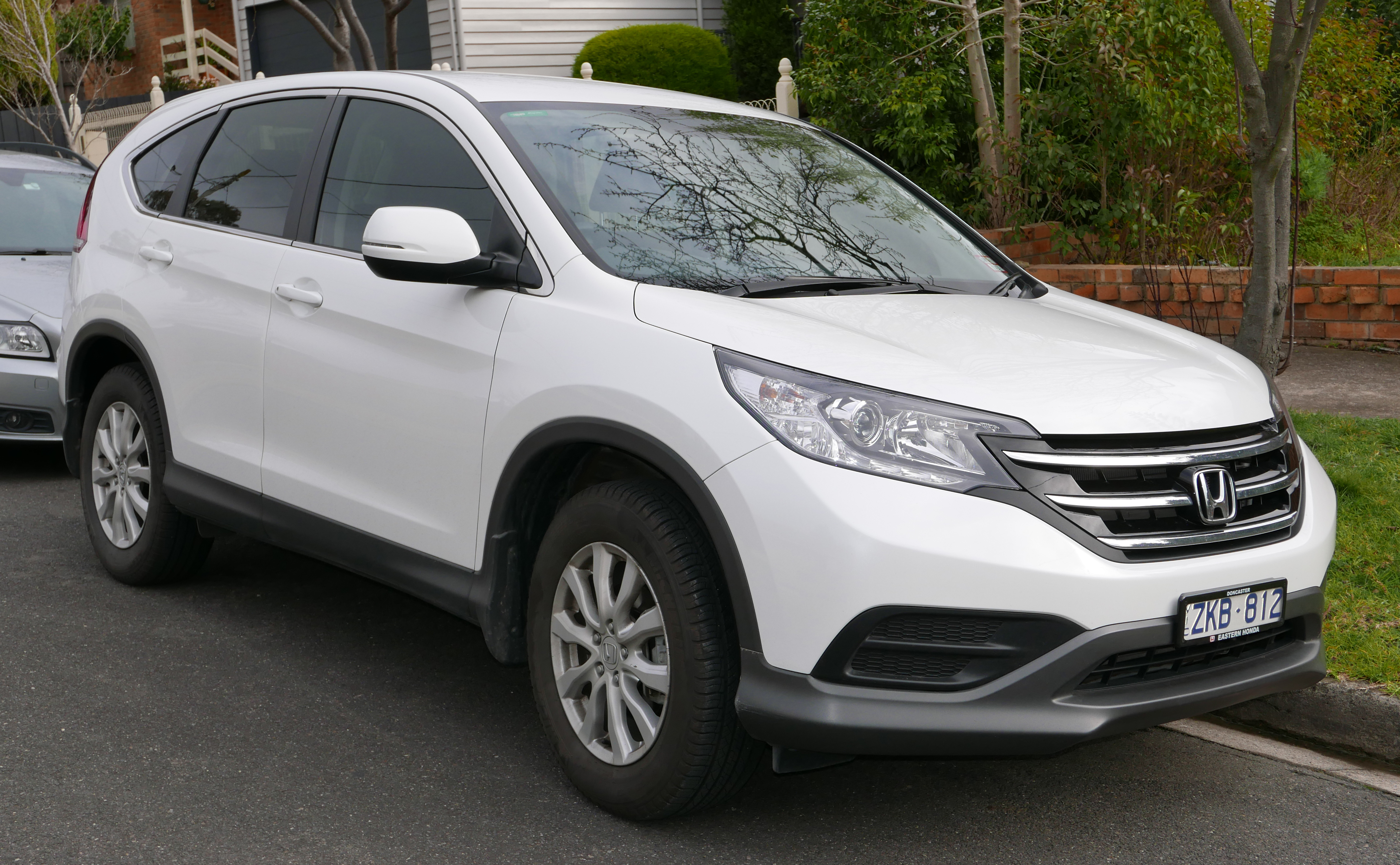 2012 Honda CR-V (RM MY13) VTi 2WD wagon. Photographed in Box Hill North, Victoria, Australia. Vehicle registration enquiry results Jurisdiction Victoria Registration ZKB812 Chassis code MRHRM1850DP040292 Engine code R20A59601023 Compliance date 2012-10 Year of manufacture 2012